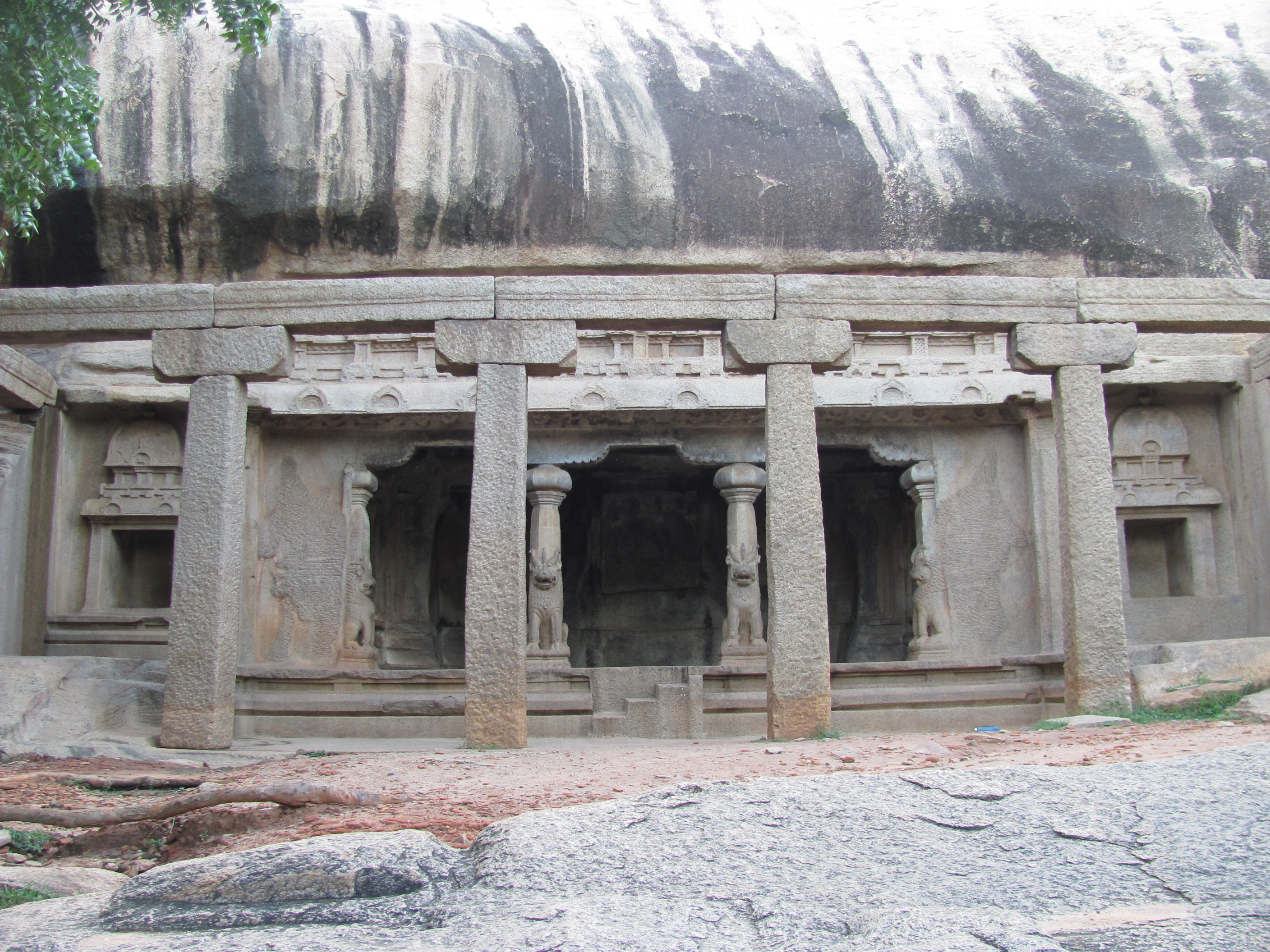 Ramanuja Mandapam in Mamallapuram (wrong file title)